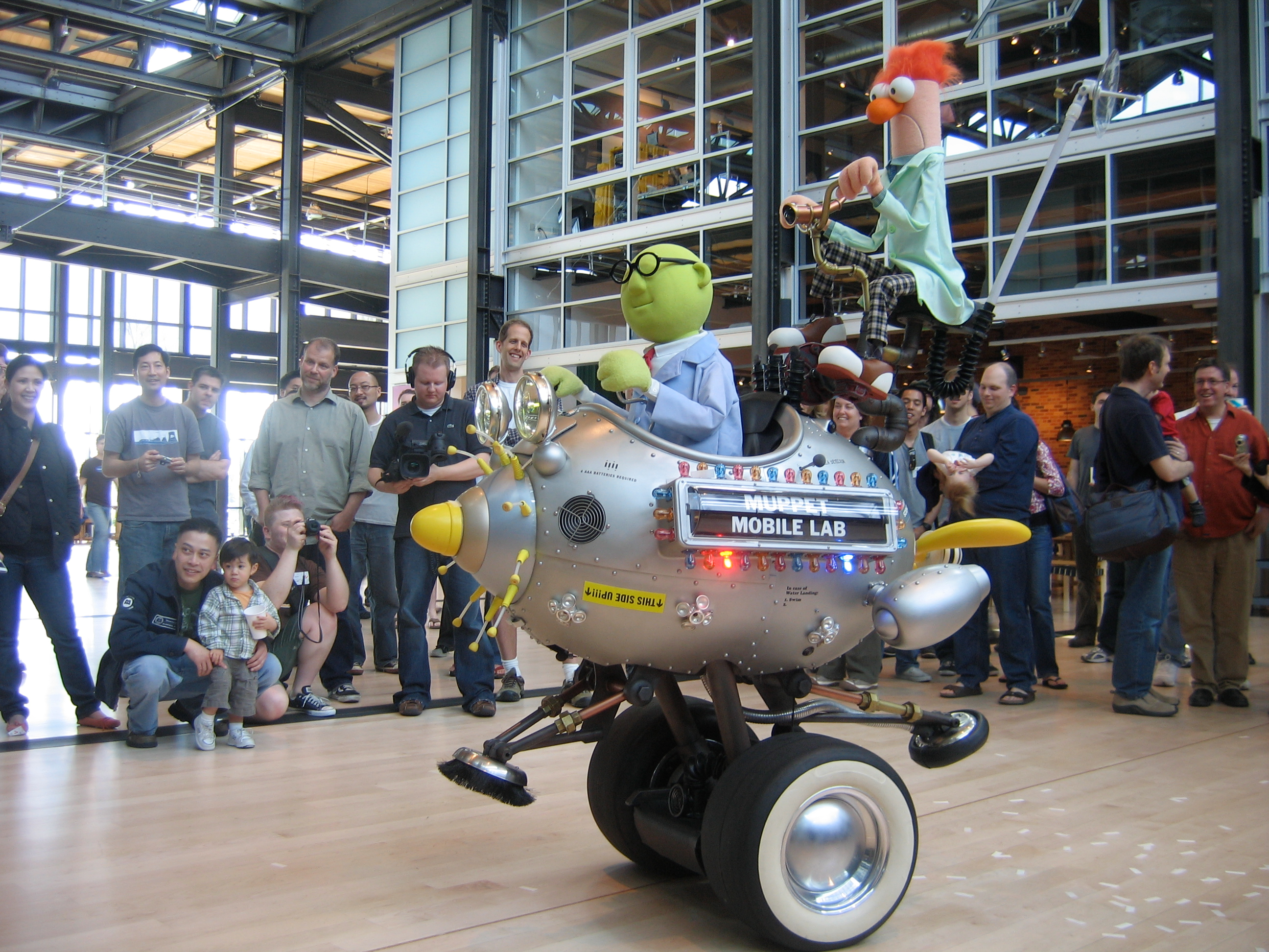 The Muppet Mobile Lab visits Pixar.